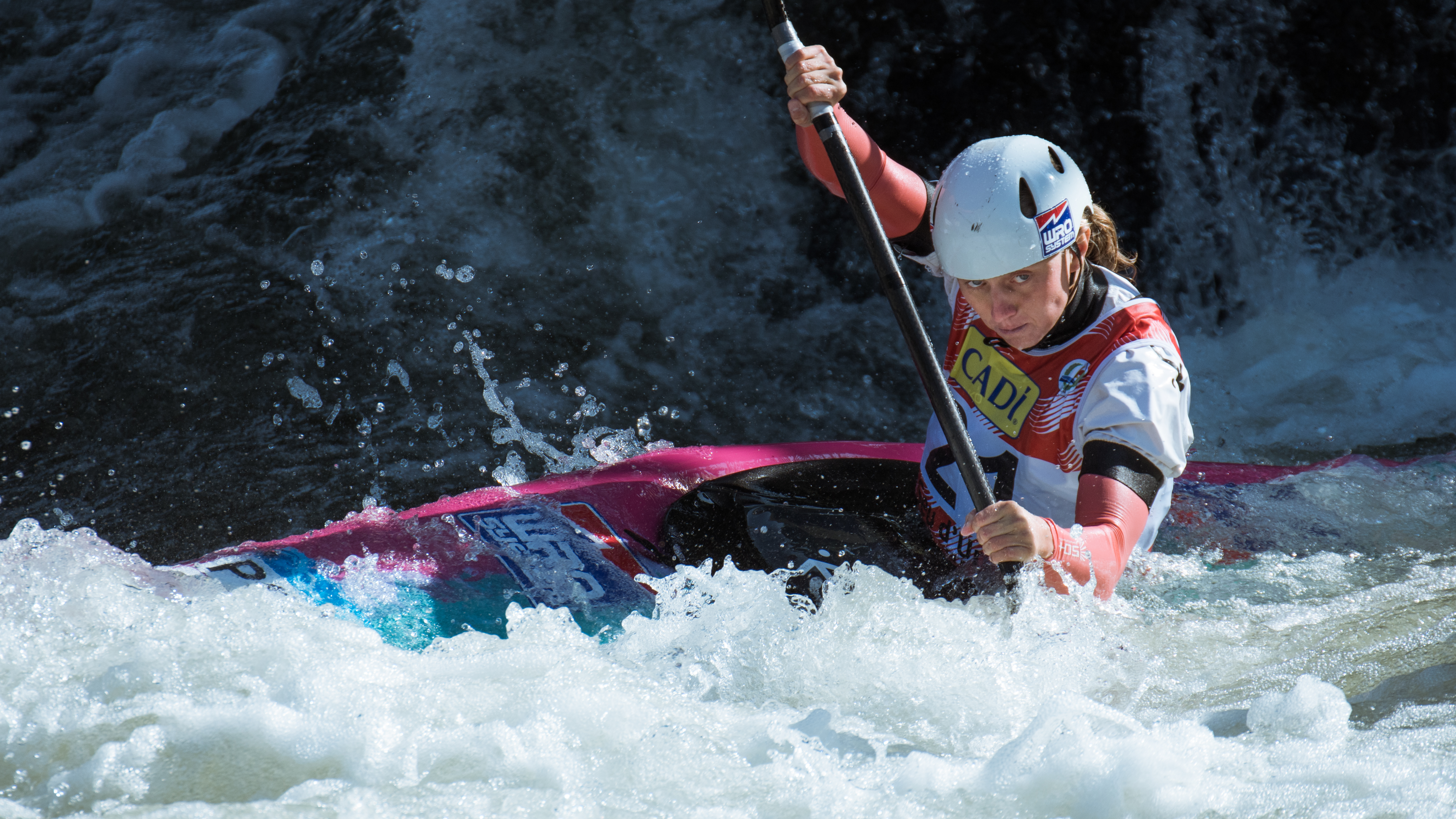 Natalia Pacierpnik during the 2019 Canoe Slalom World Championships in La Seu d'Urgell, Spain.